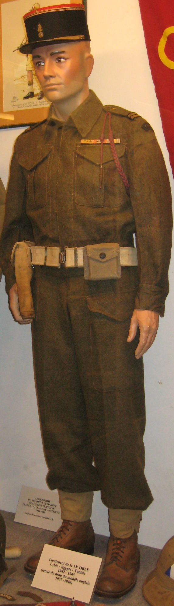 Lieutenant of the french 13th foreign Legion half-brigade - North Africa - 1942-1943French foreign Legion Museum - Uniforms' part - Puyloubier (France)